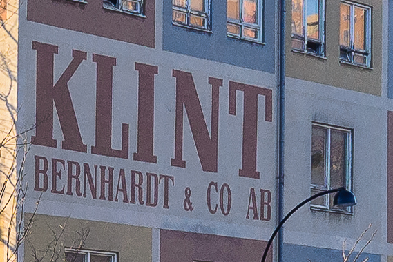 Former factory for Klint, Bernhardt & C:o in Nacka, Stockholm.